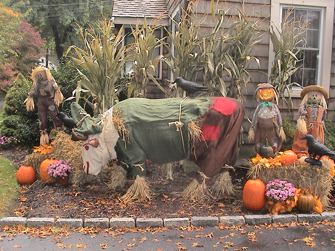 Gladys as a scarecrow